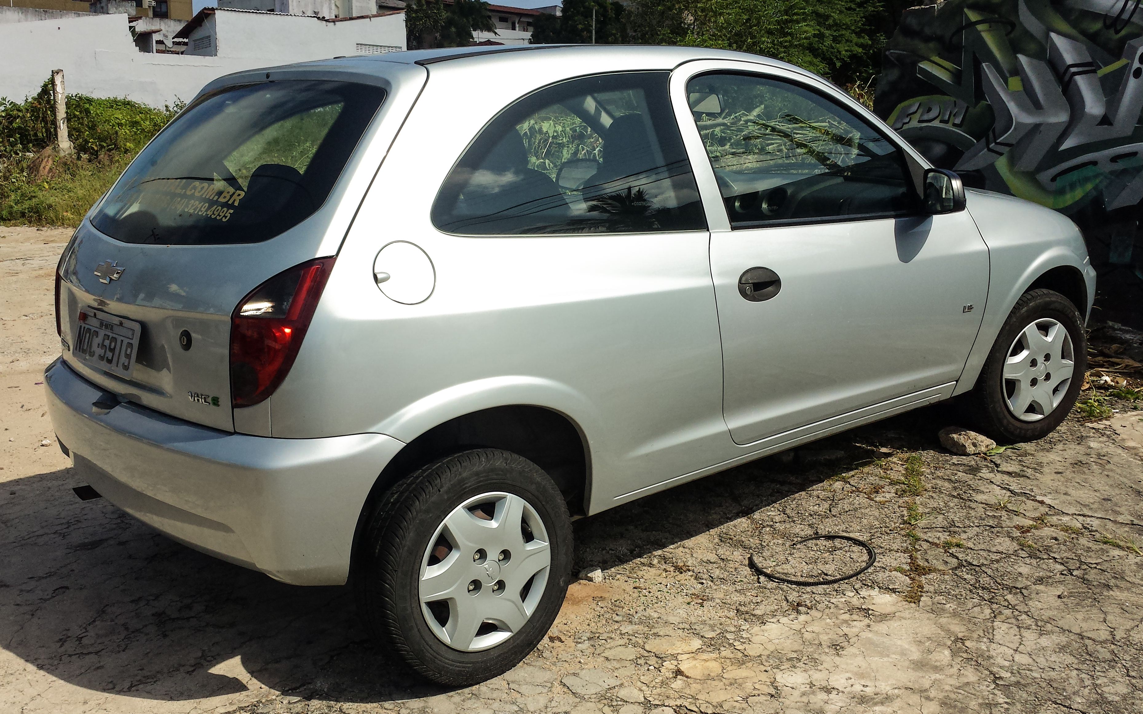 Chevrolet Celta three door hatchback